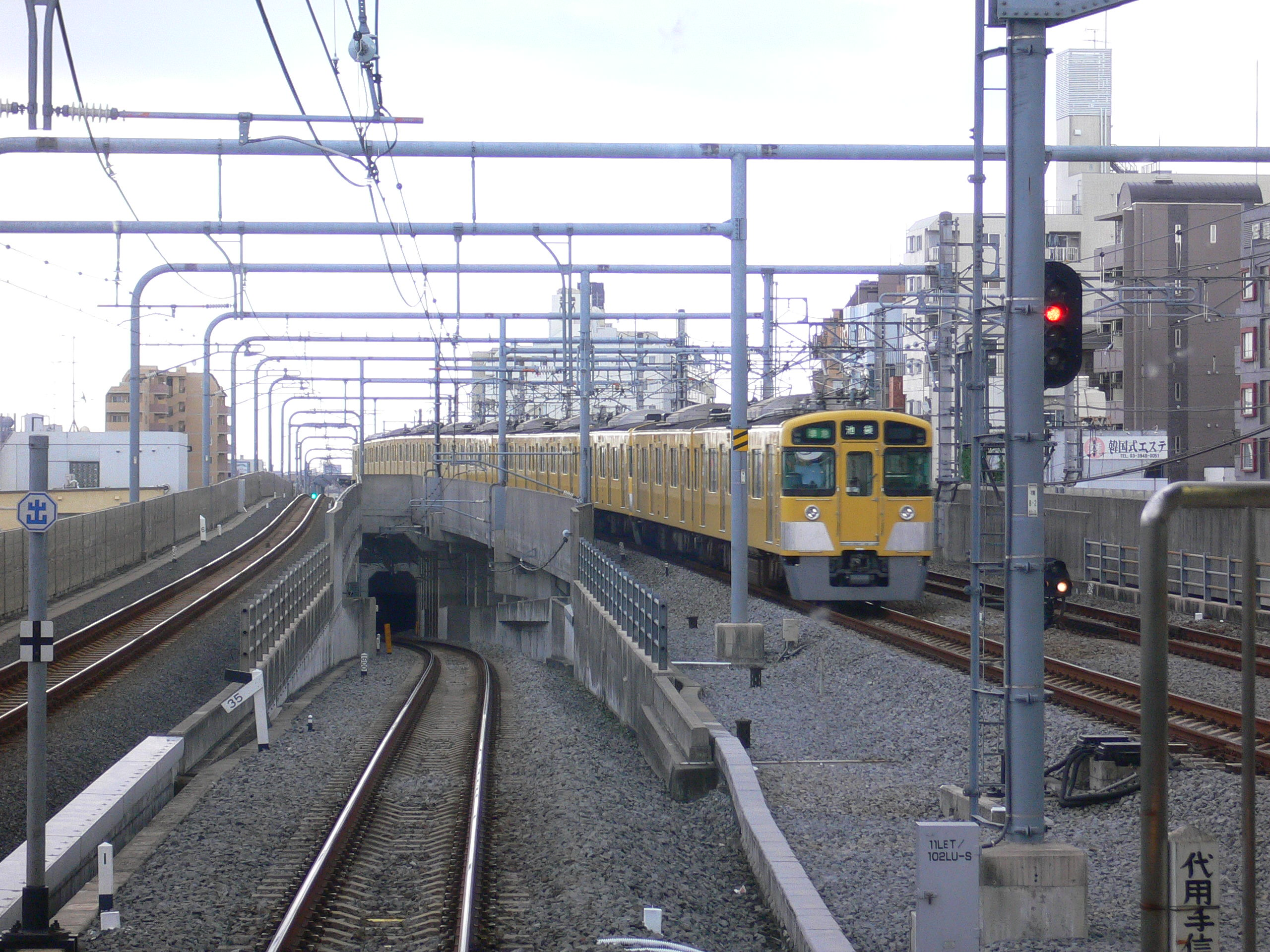 Nerima Station (練馬駅), Nerima W, Tokyo M.